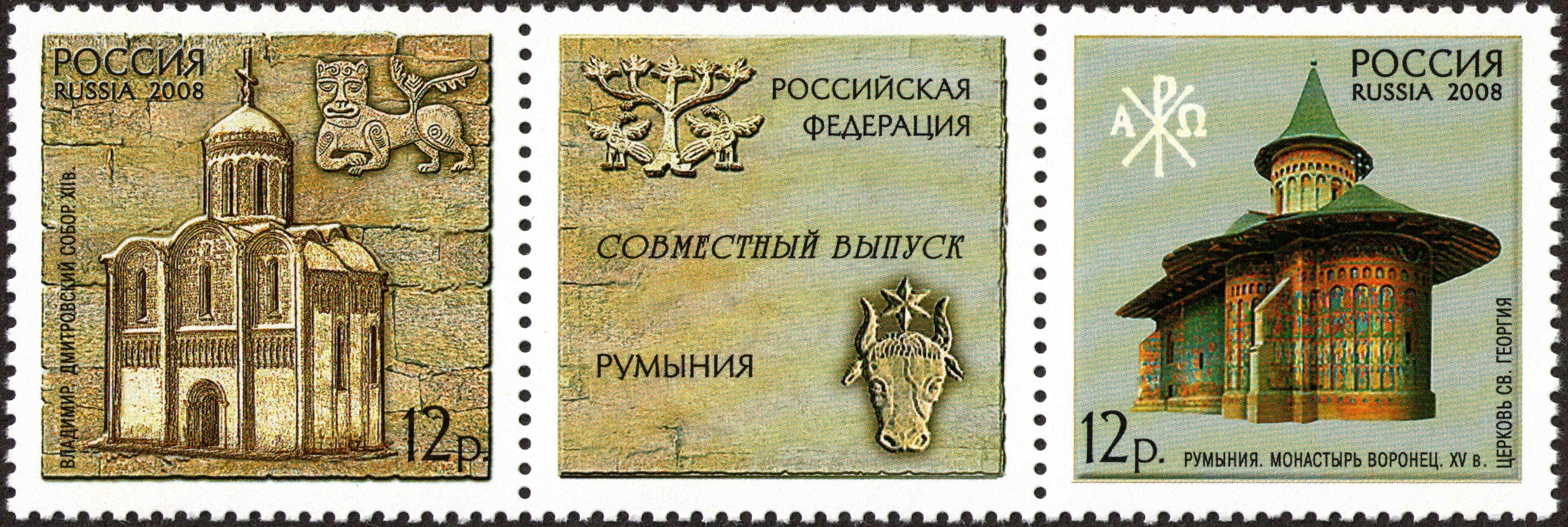 Monuments of World Cultural Heritage: the joint issue of Russia and Romania. The se-tenant stamps of Russia with a coupon, 23 June 2008, 2x12.00 Rubles, PTC Marka Catalogue No 1237–1238 , Michel No 1469—1470. No 1237The coupon No 1238 The stamp No 1237. 12.00 Rubles: the Cathedral of Saint Demetrius (1194–1197), Vladimir, Russia. The stamp No 1238. 12.00 Rubles: the temple of Saint George (1488) at Voroneț Monastery, Gura Humorului, Romania